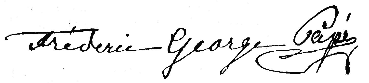 Autograph of Friedrich Georg Pape (1763-1816)